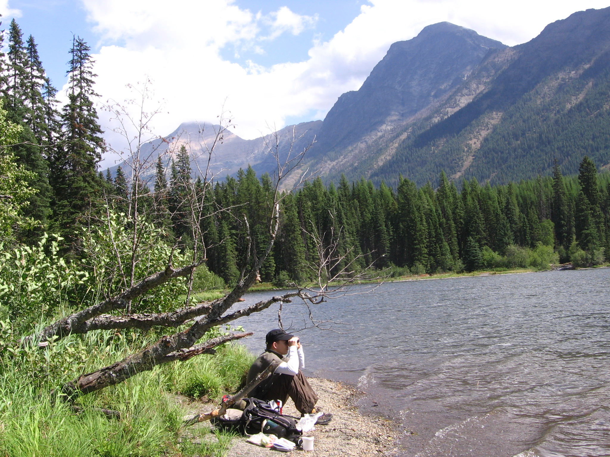 Scanning a lake for Common Loons for the Common Loon Monitoring Citizen Science Project.